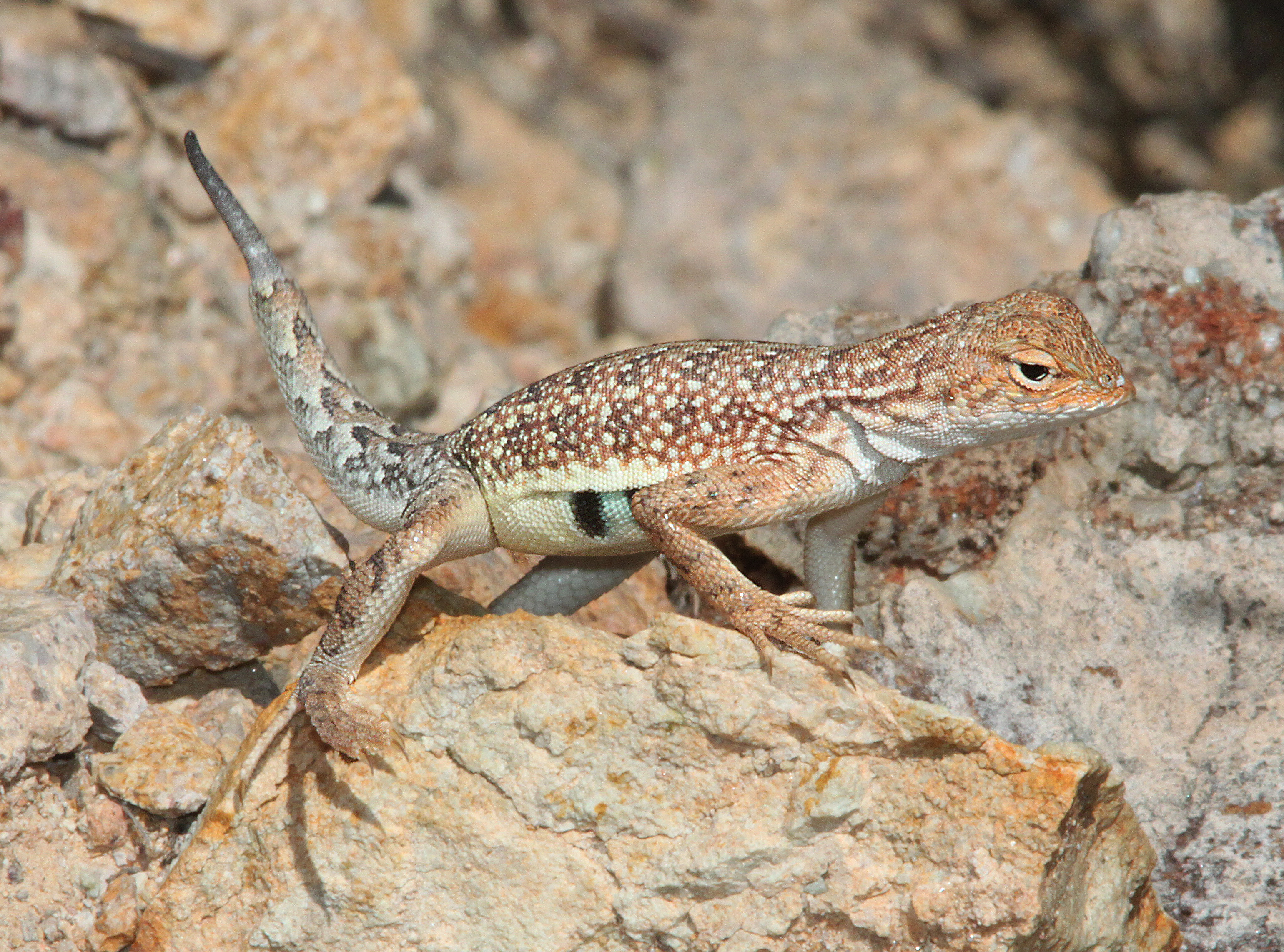 LIZARDS, SNAKES, FROGS, etc